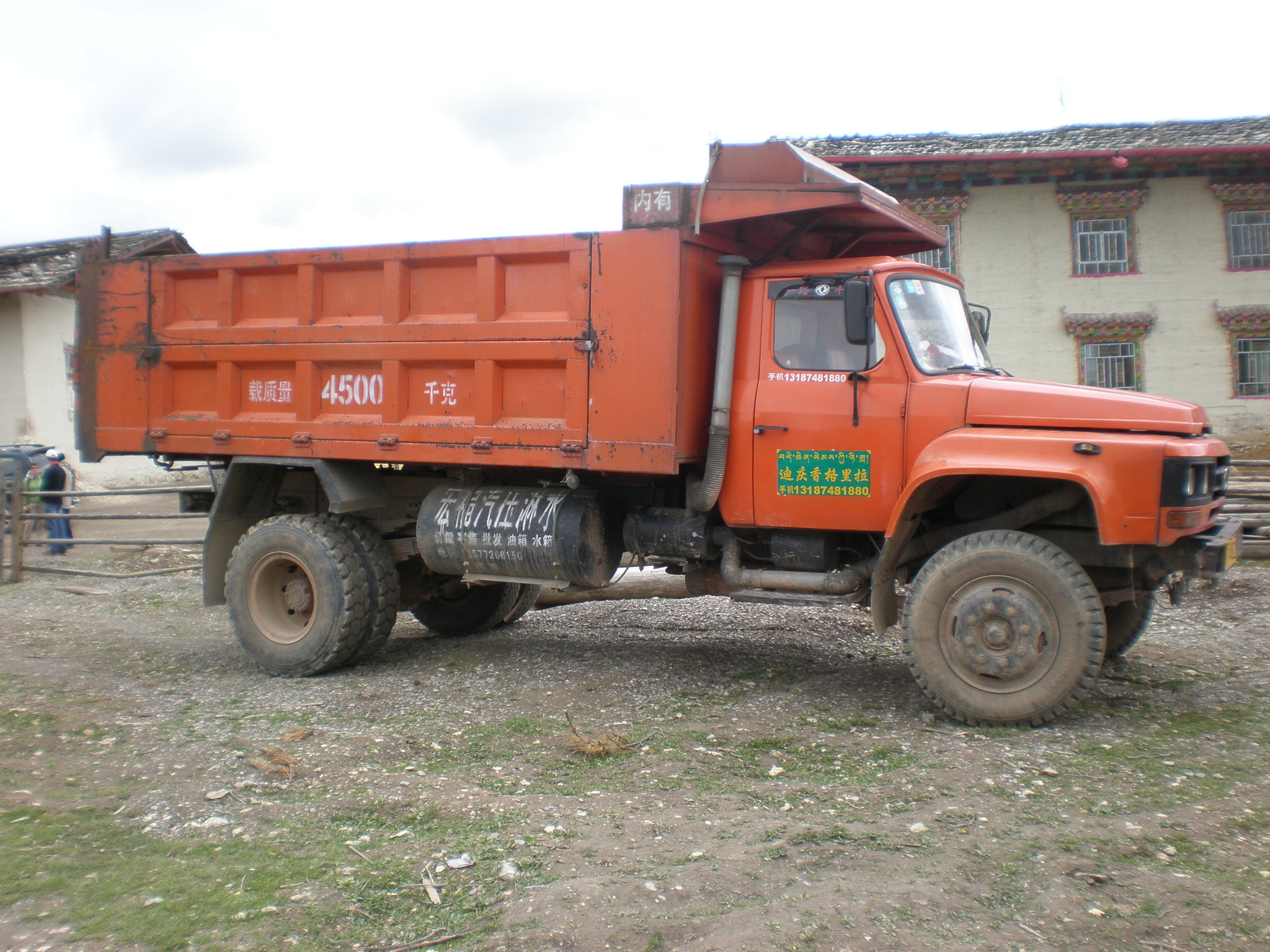 A Sitom+ dump truck in a village near Dali, Yunnan.